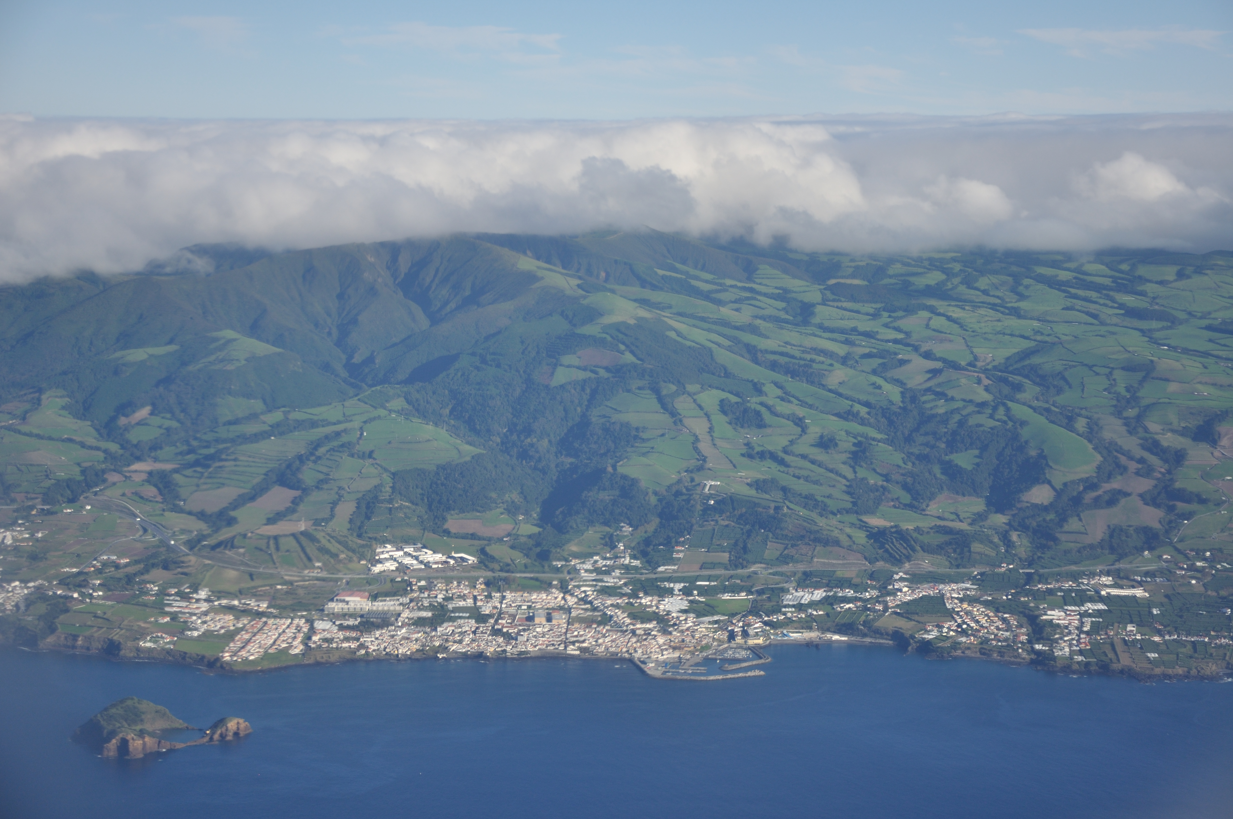 Portugal, aerial views of the Azores